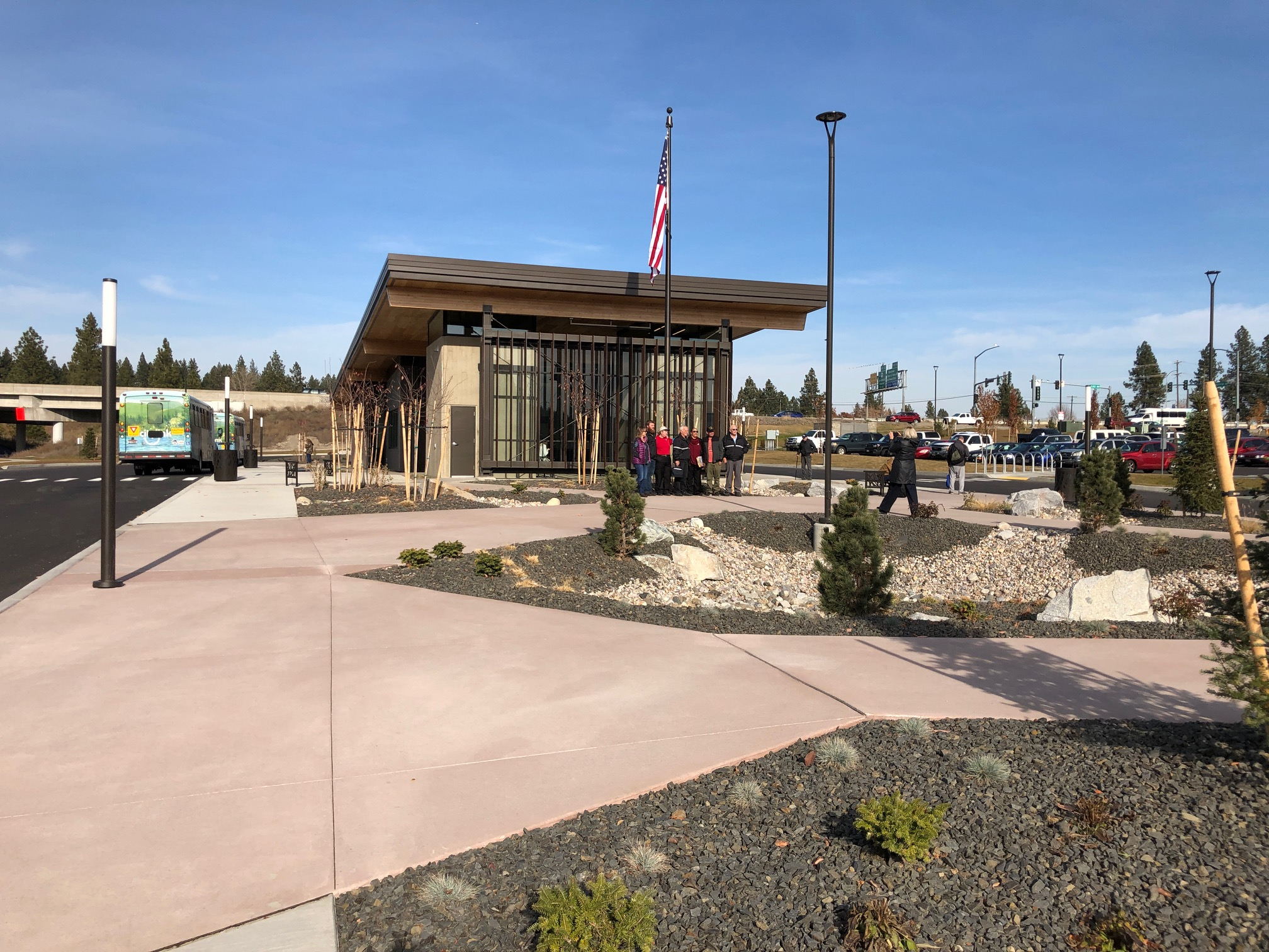 Flag raising ceremony at opening of new facility in the Fall of 2019.